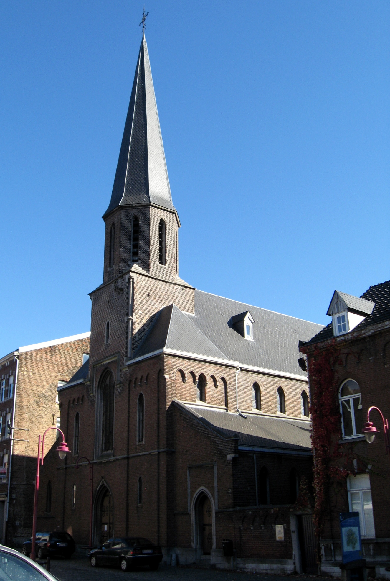 Church of Saint John the Baptiser in Hodimont, Verviers